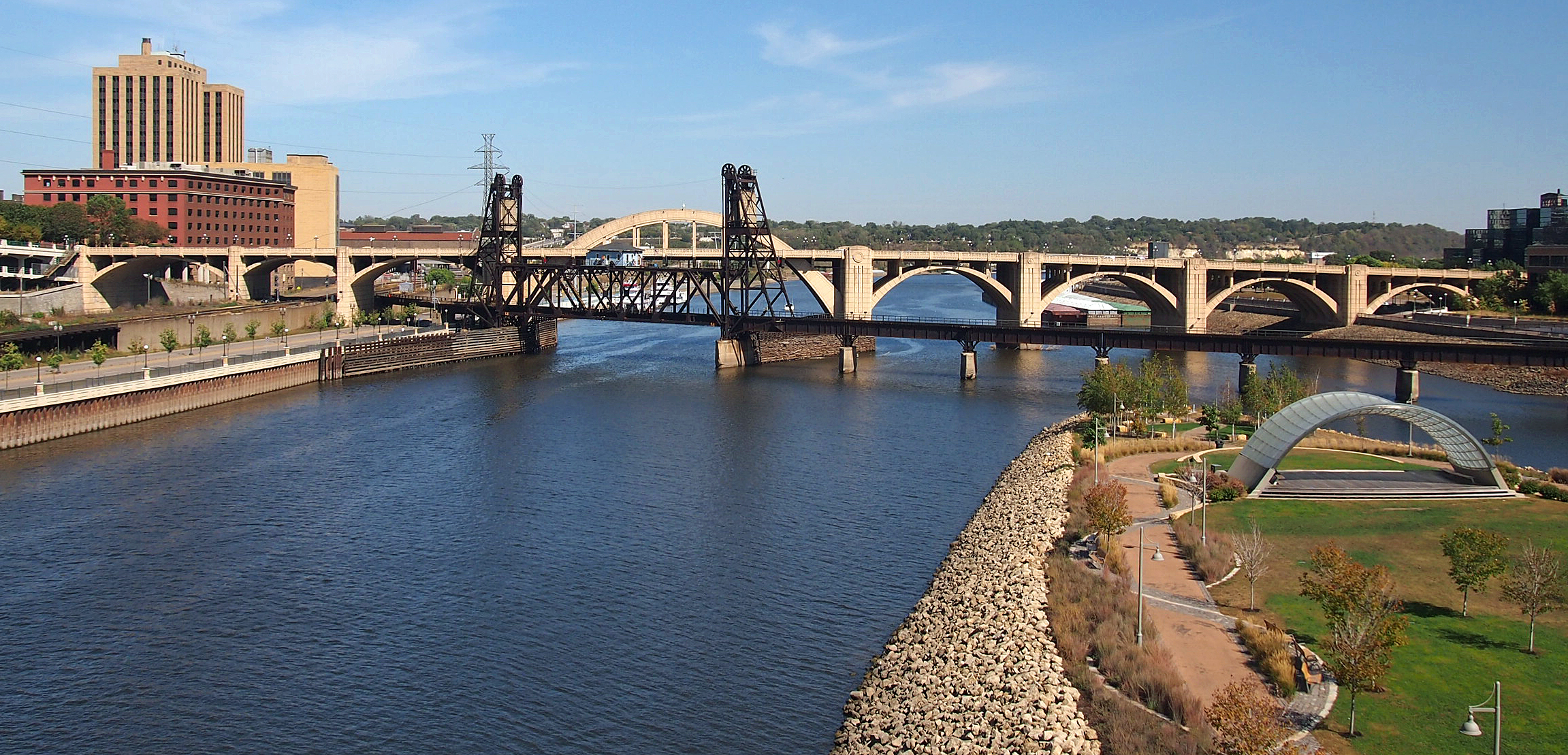 The Mississippi River in downtown Saint Paul, Minnesota, United States. View looking downstream (east) from the Wabasha Street Bridge, showing the St. Paul Union Pacific Vertical-lift Rail Bridge and Robert Street Bridge, with Raspberry Island in the right foreground.